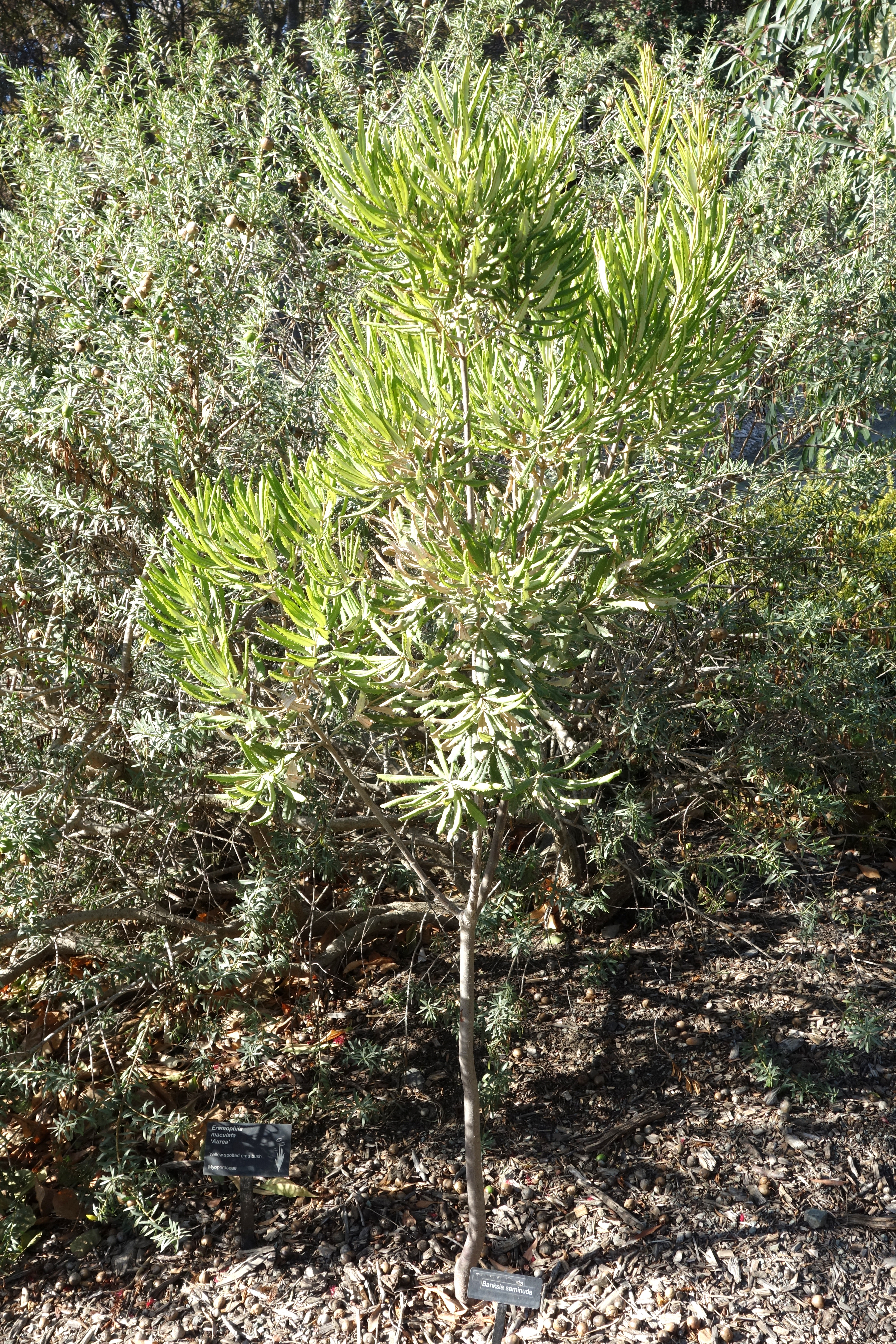 Botanical specimen in Leaning Pine Arboretum, California Polytechnic State University, San Luis Obispo, California, USA.